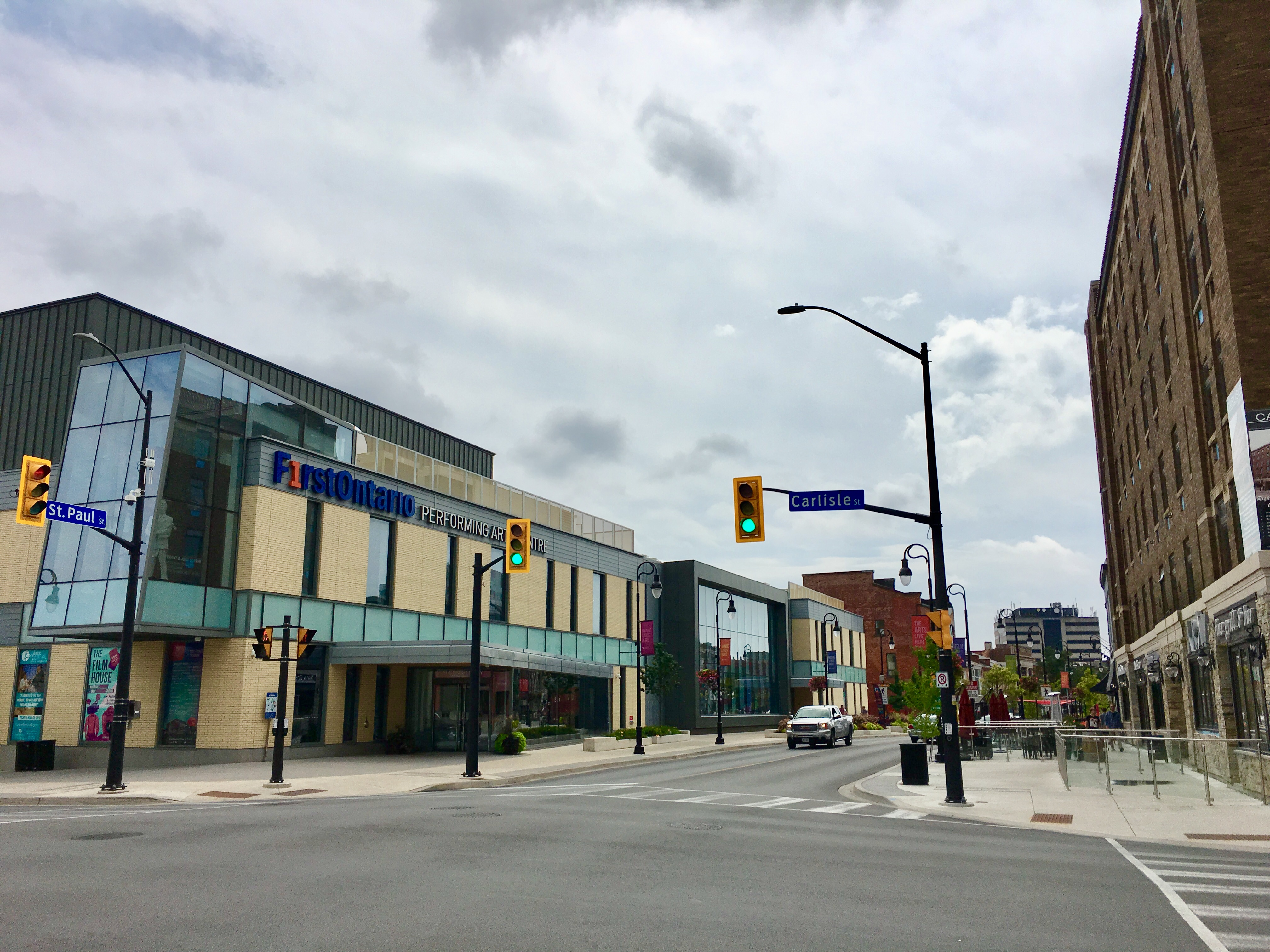 The FirstOntario Performing Arts Centre, as seen from the corner of St. Paul and Carlisle streets, in downtown St. Catharines, Ontario.